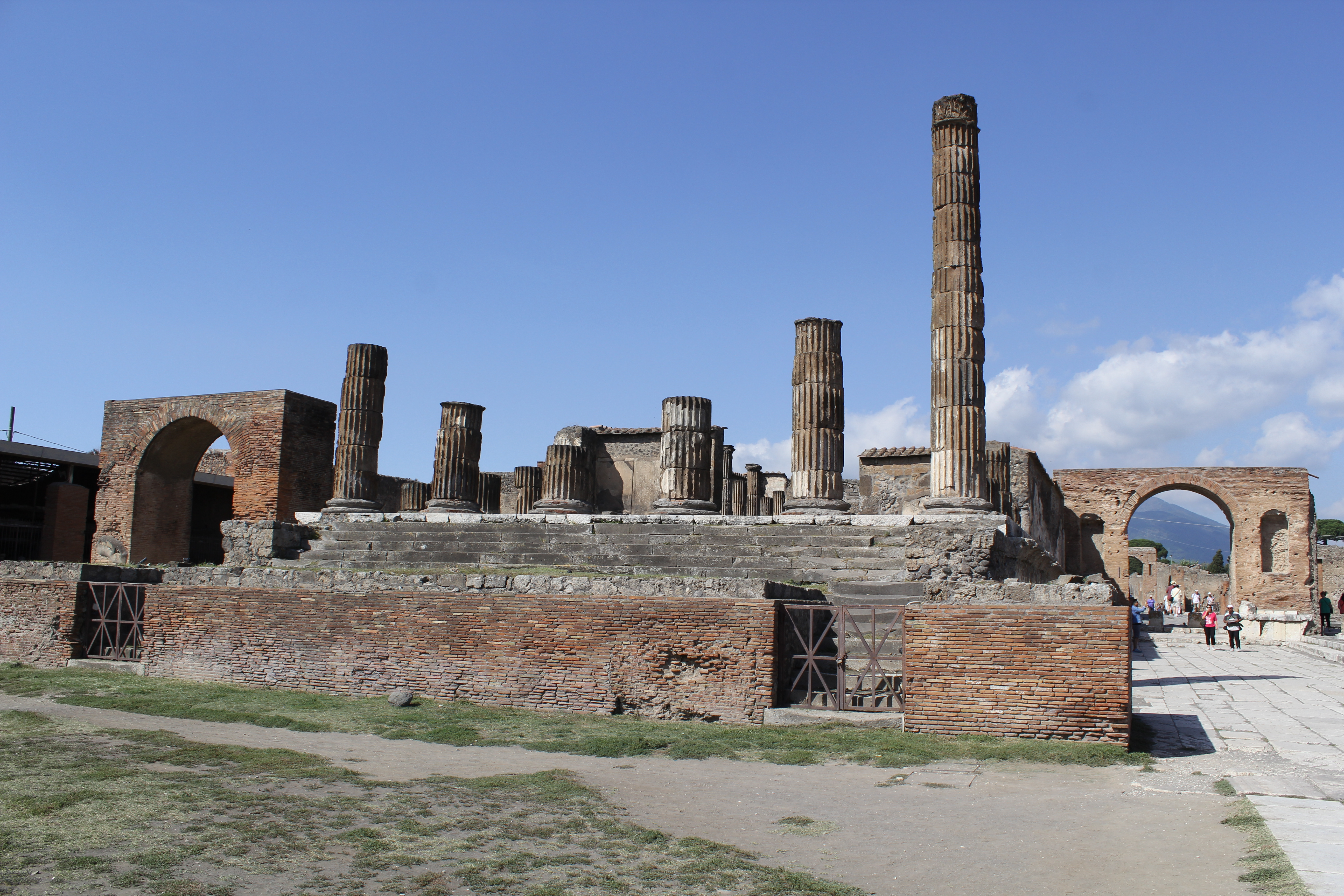 Temple of Jupiter (2)